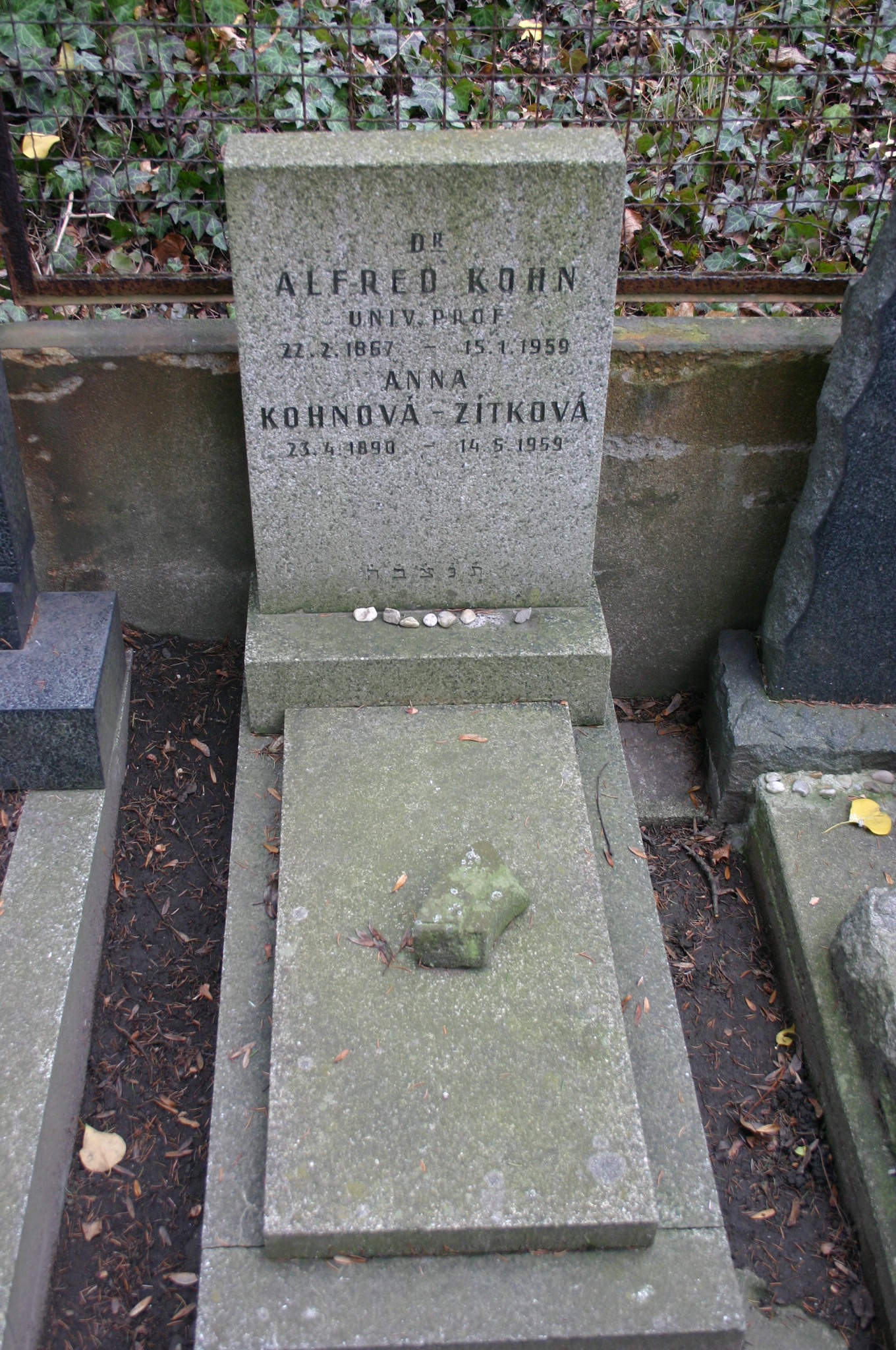 Tomb of Alfred Kohn and his wife in Prague